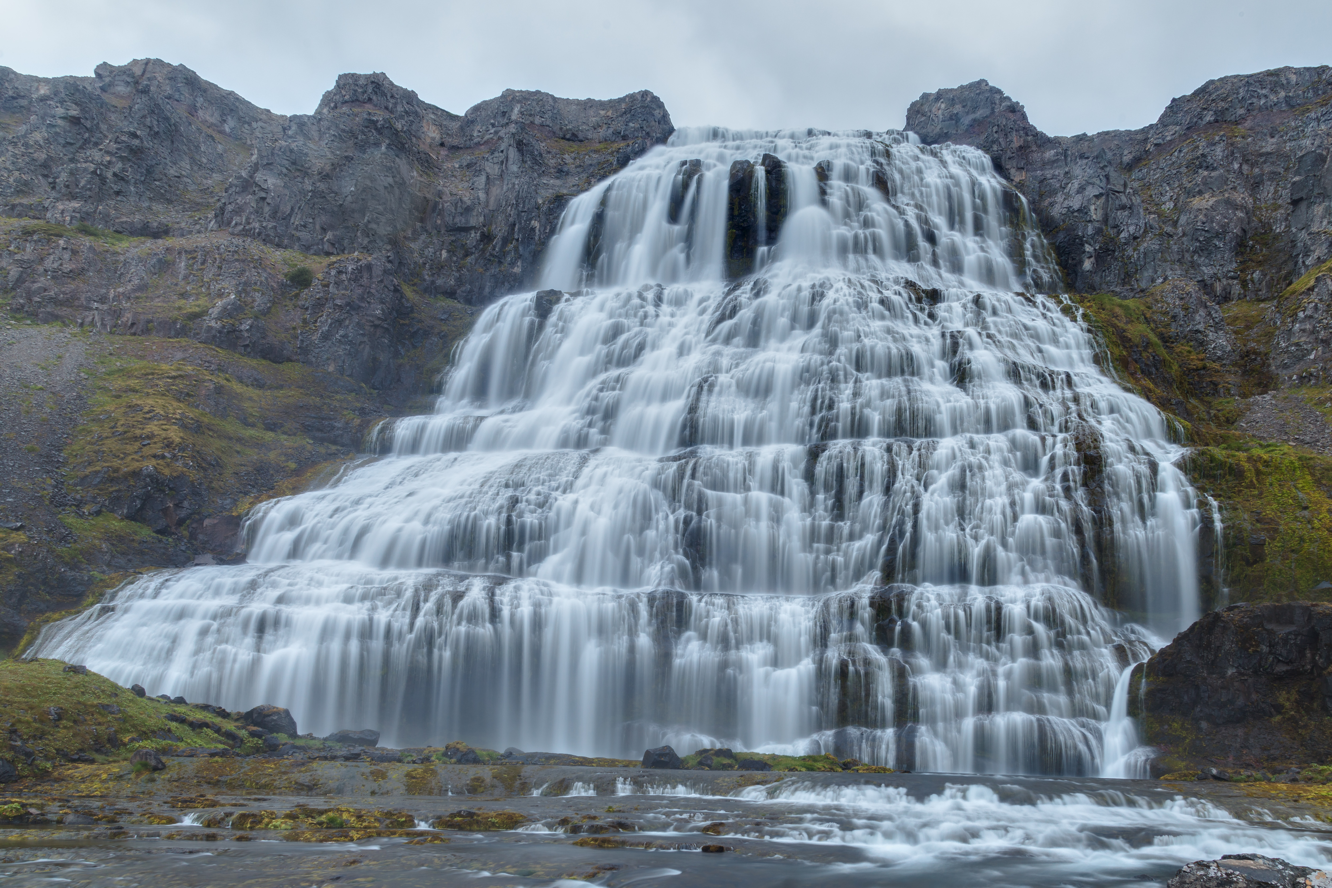 Waterfall Dynjandi, Vestfirðir, Iceland